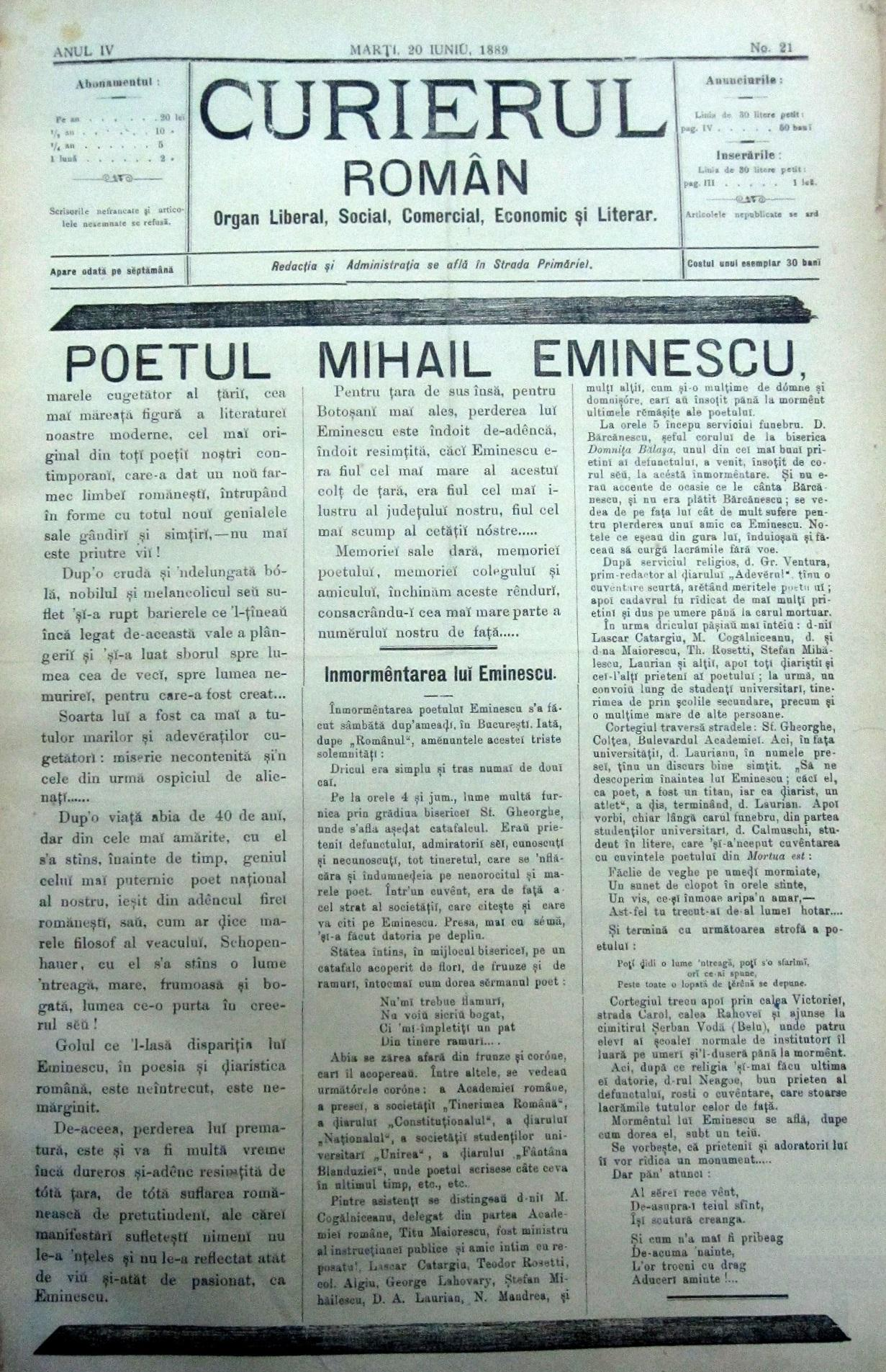 The cover of "Curierul Român", Issue no. 21, June 20, 1889; Founder and Director: Ioniţă Scipione Bădescu (1847-1904).